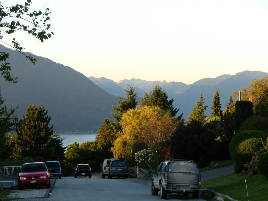 This image was created by me, Flying Penguin of Pacific Spirit Photography ( of Burnaby, BC, Canada